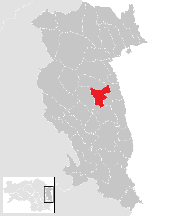 district Hartberg-Fürstenfeld